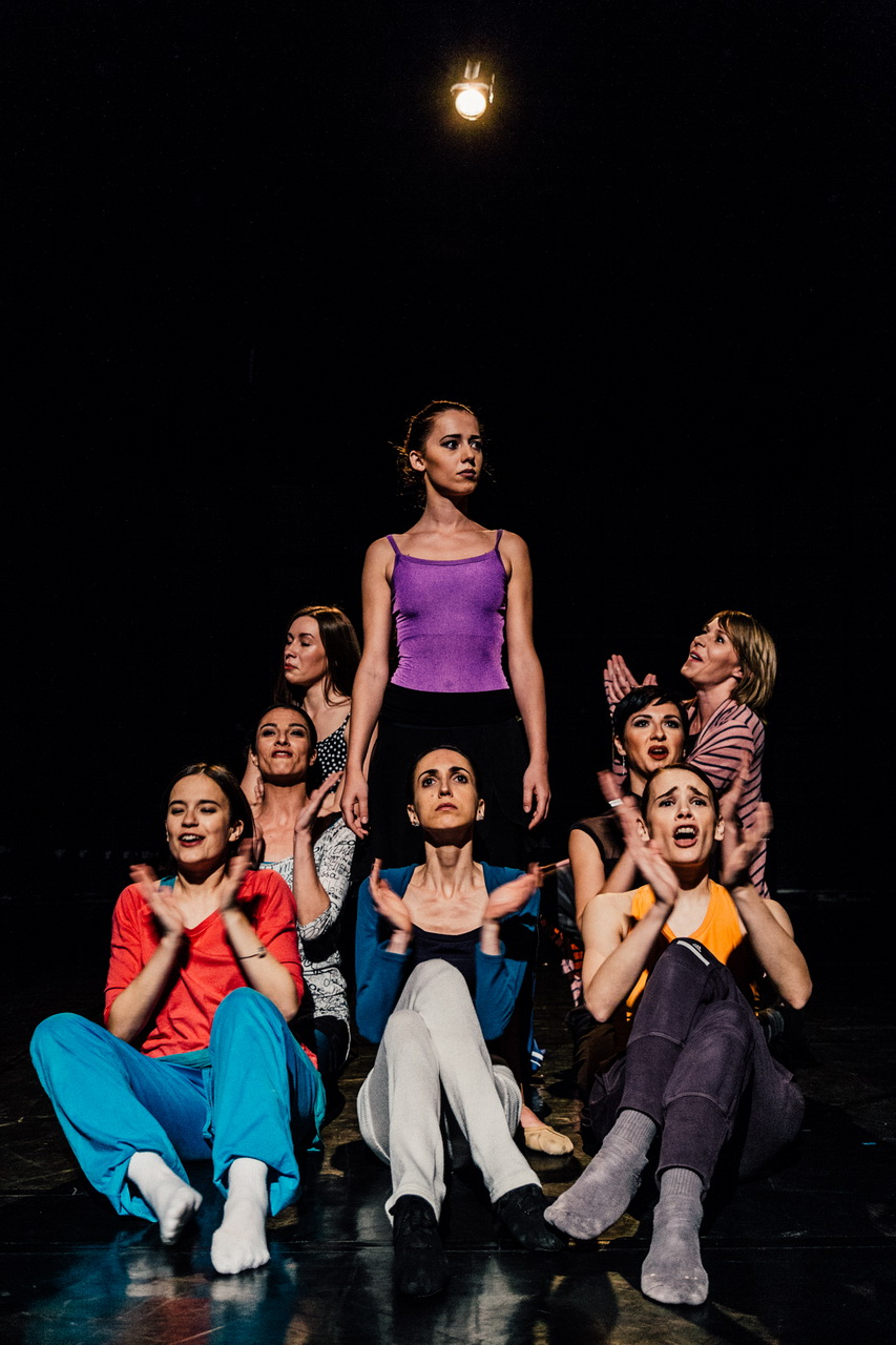 Ballerinas, New Dance Forum, SNT, Novi Sad, 2014-15, director Milena Bogavac Srpski (latinica): Balerine, Forum za novi ples, Srpsko narodno pozorište, Novi Sad, sezona 2014-15, reditelj Milena Bogavac Српски (ћирилица): Балерине, Форум за нови плес, Српско народно позориште, Нови Сад, сезона 2014-15, редитељ Милена Богавац